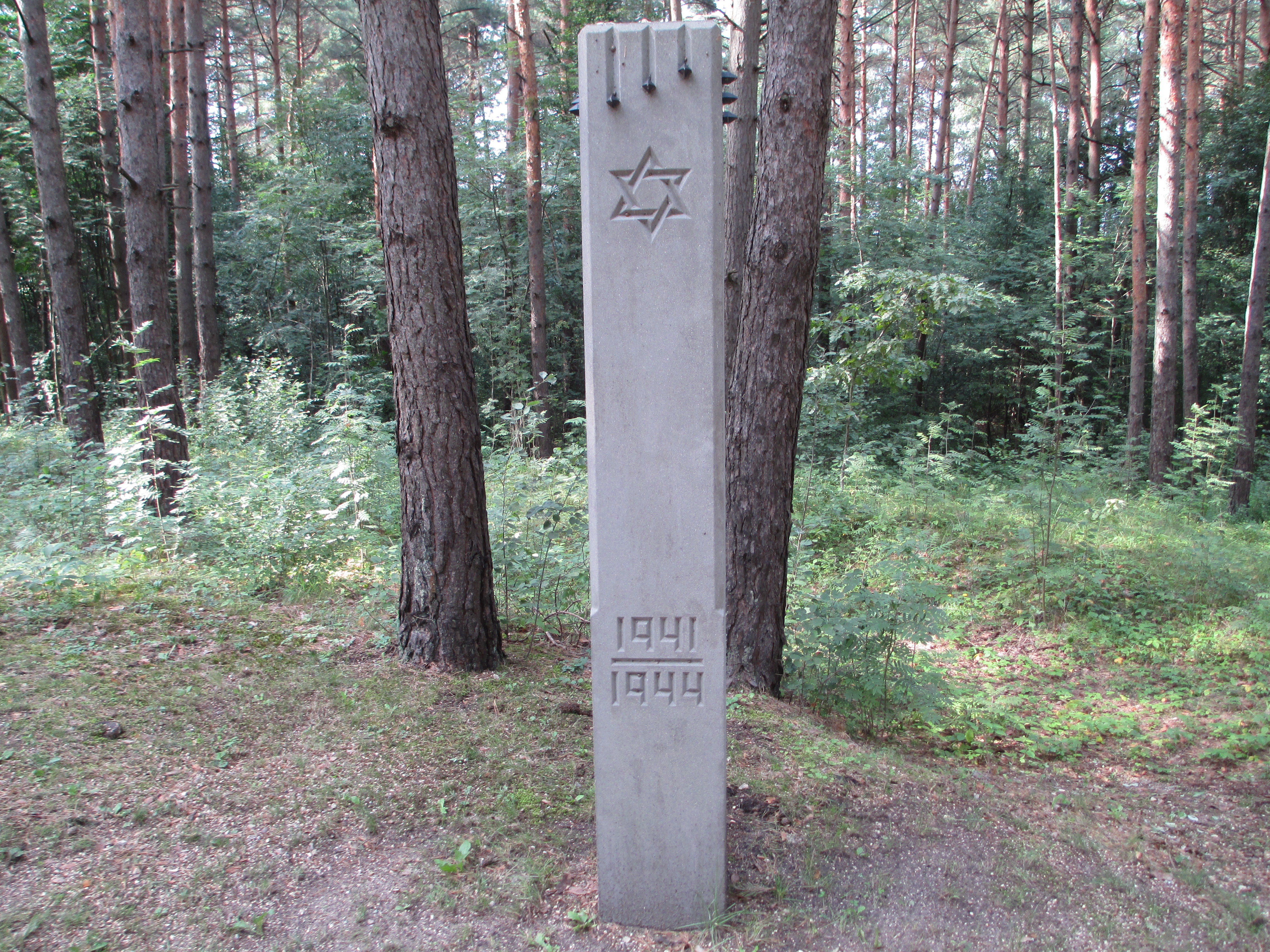 one of the memorial posts in rumbula forest